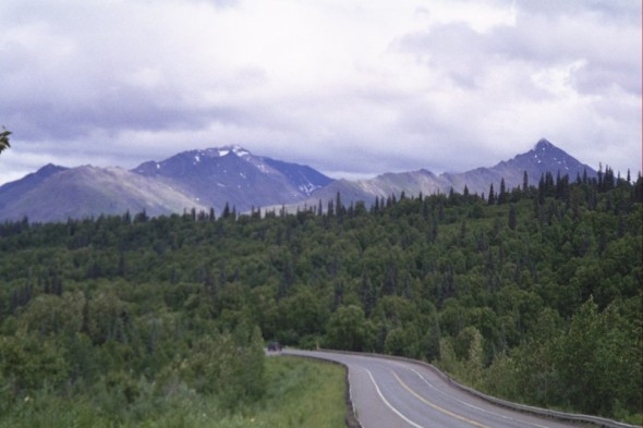 Scenery visible from the Parks Highway near Hurricane, Alaska.